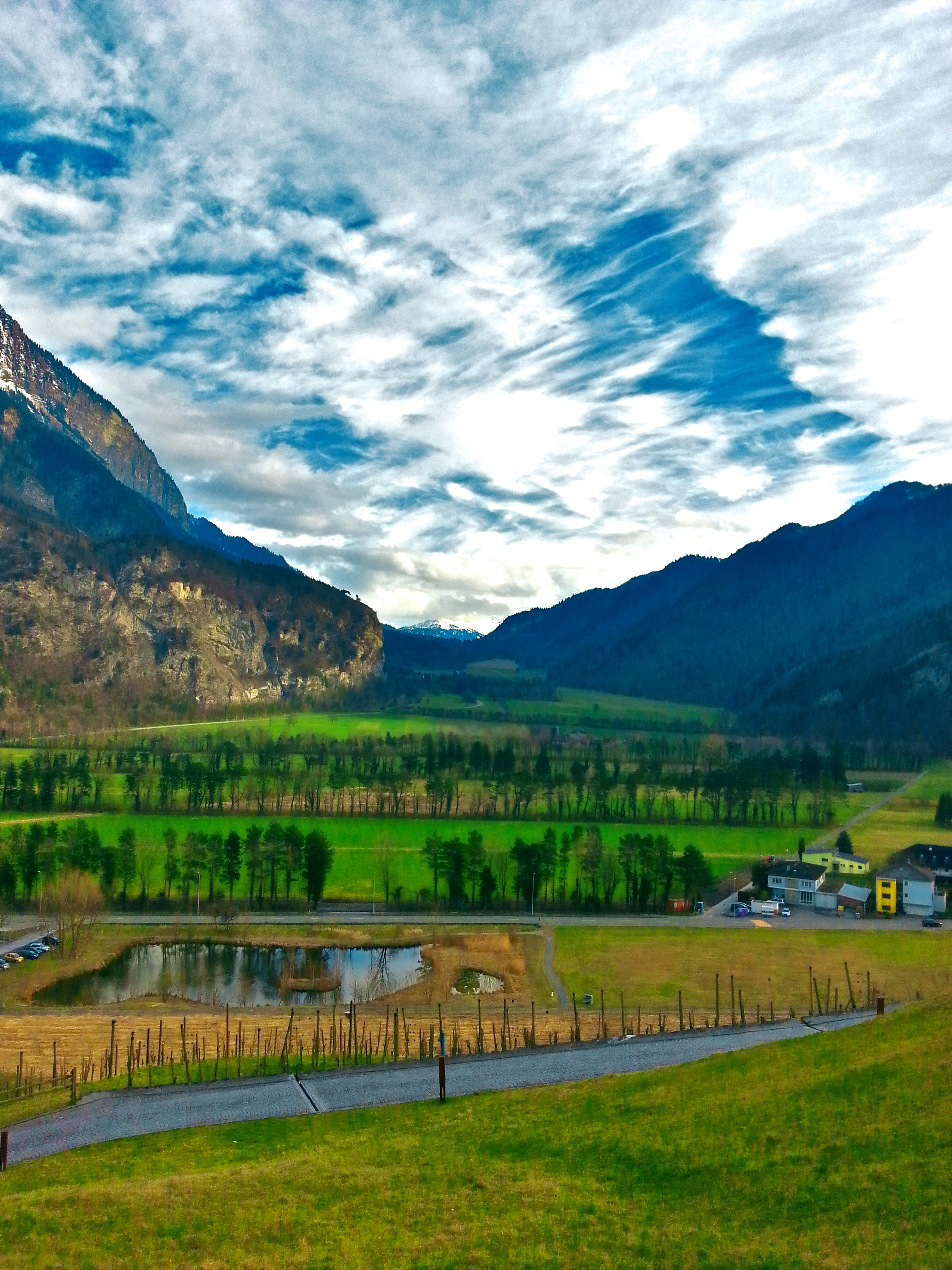 Fields of Balzers from Gutenberg Castle